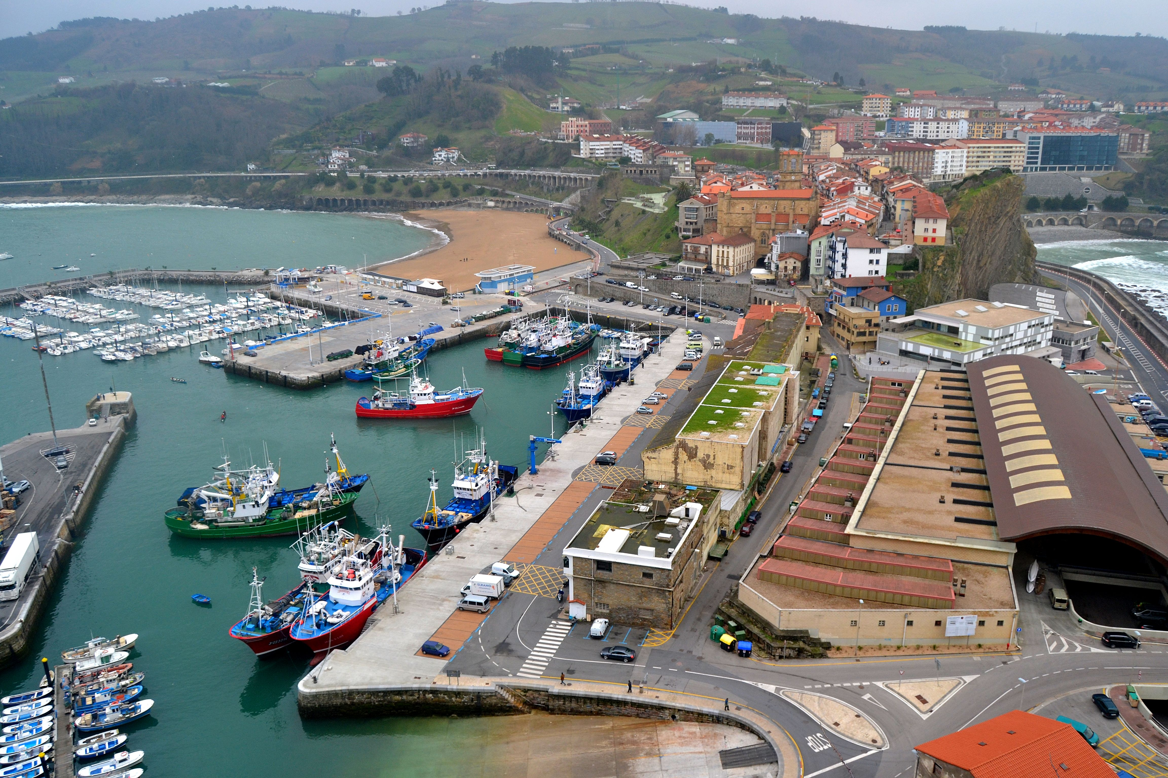 Guetaria, Guipuscoa. Spain.